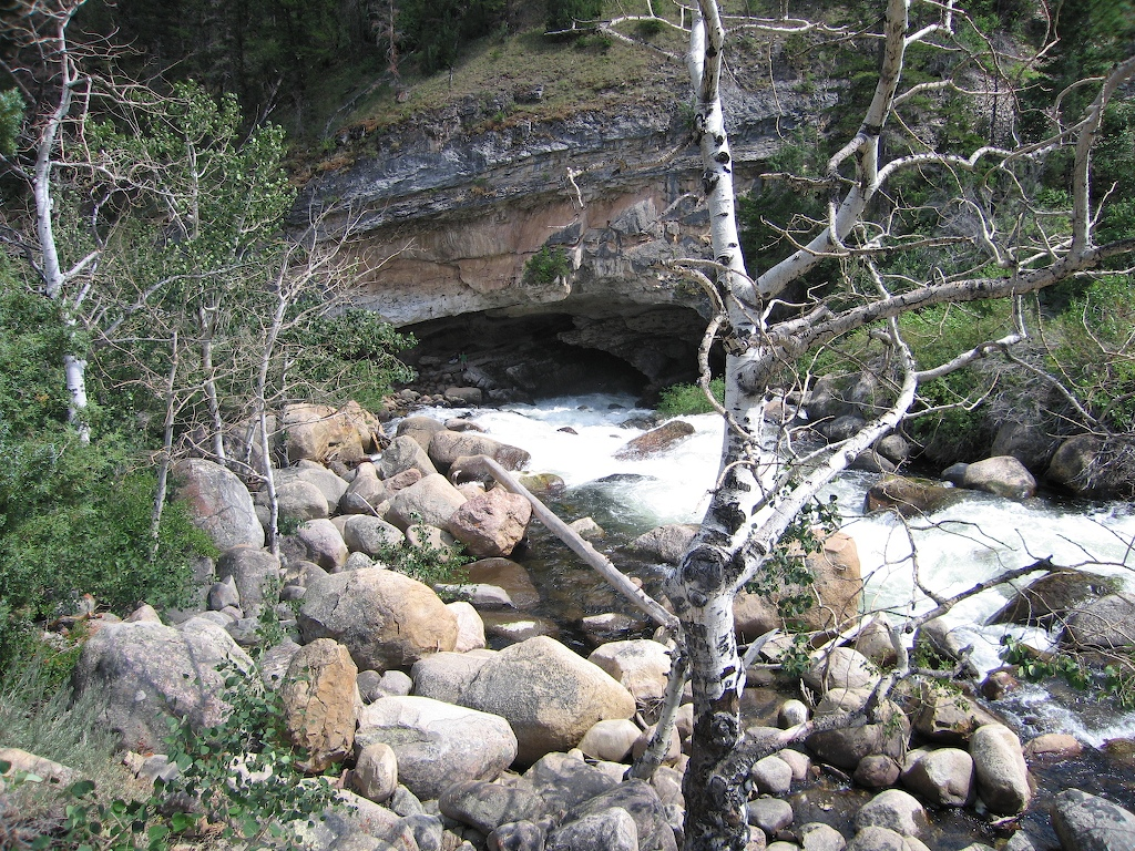 Sinks Canyon State Park, Wyoming. The Popo Agie River 'sinks' into the cavern.